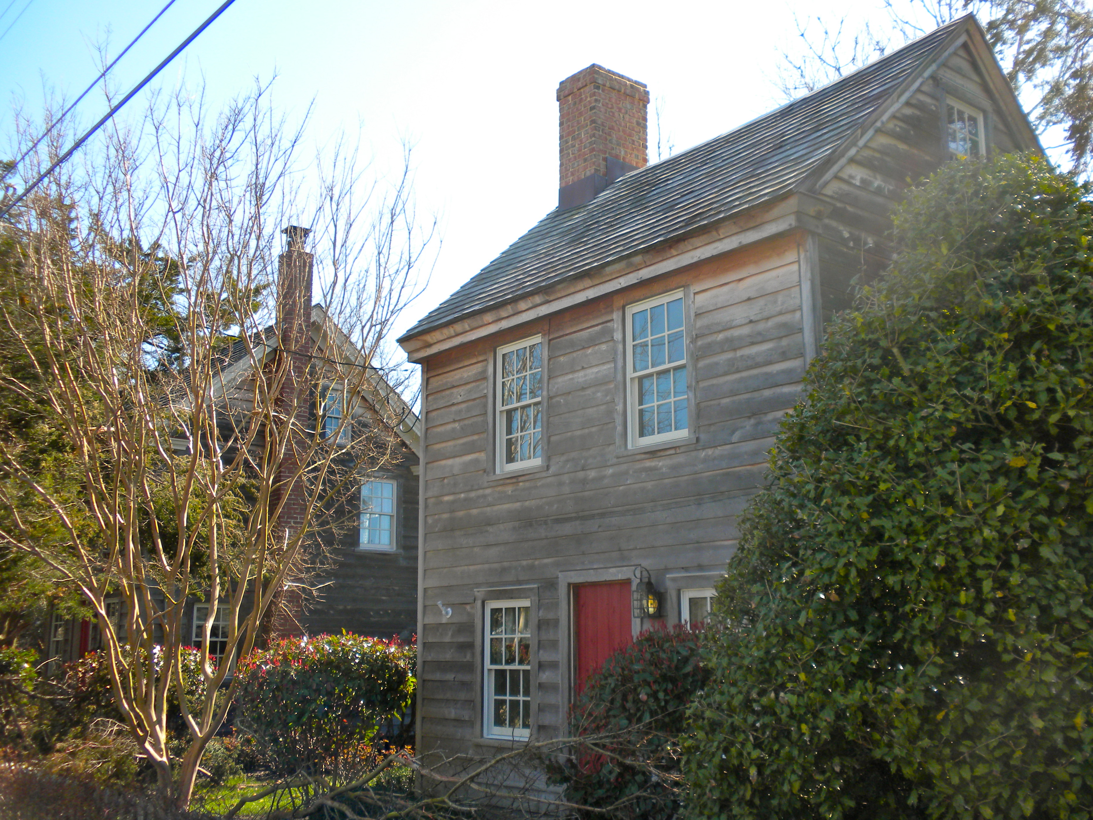 Owen Coachman House on NRHP since September 9, 2005. At 1019 Batts Ln. in Lower Township, Cape May County, New Jersey. The house on the right has a NRHP plaque, the one on the left looks nearly identical, so not sure if they are a NRHP pair